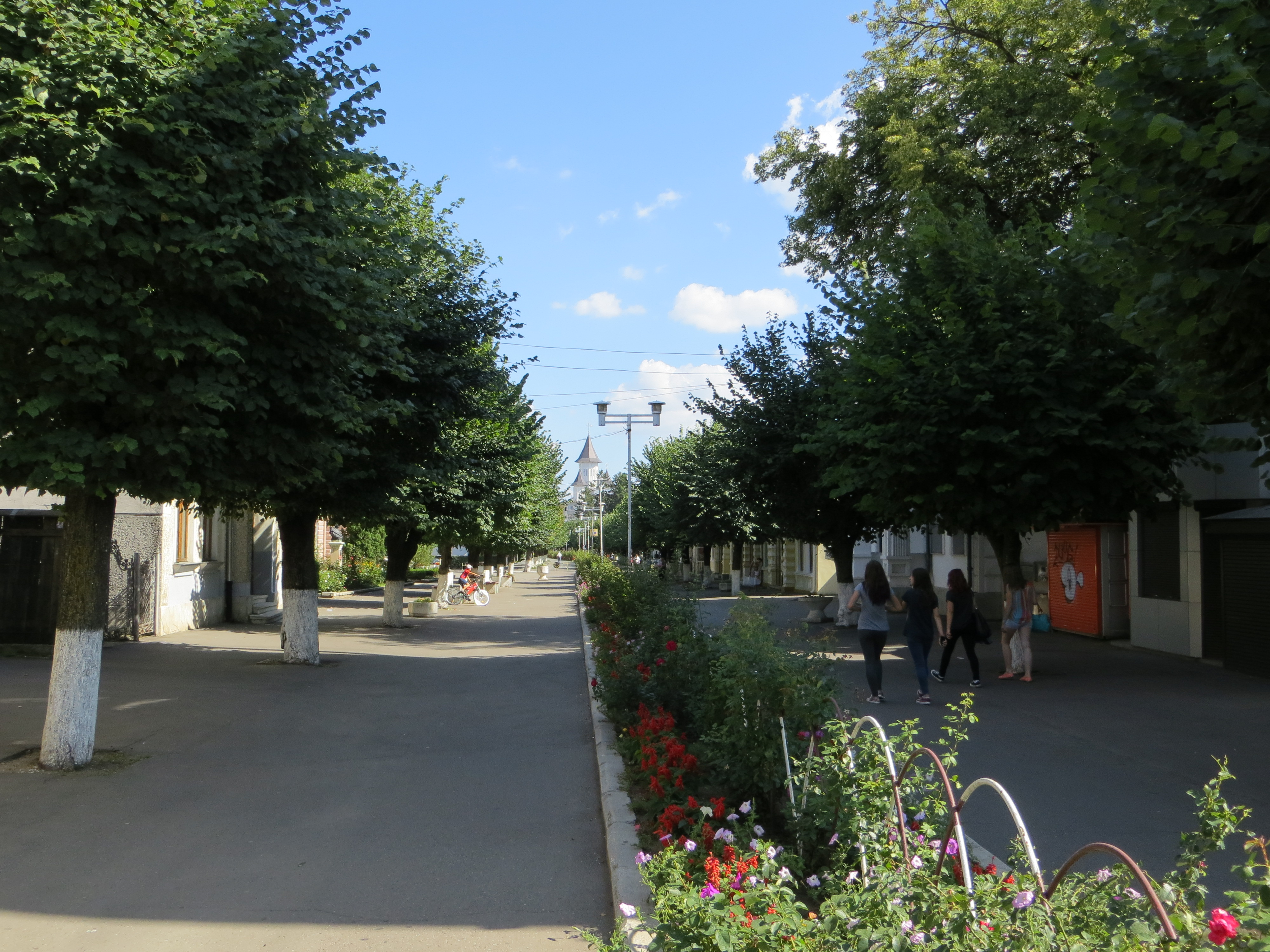 Republicii Street urban ensemble, Fălticeni, Suceava County, Romania.